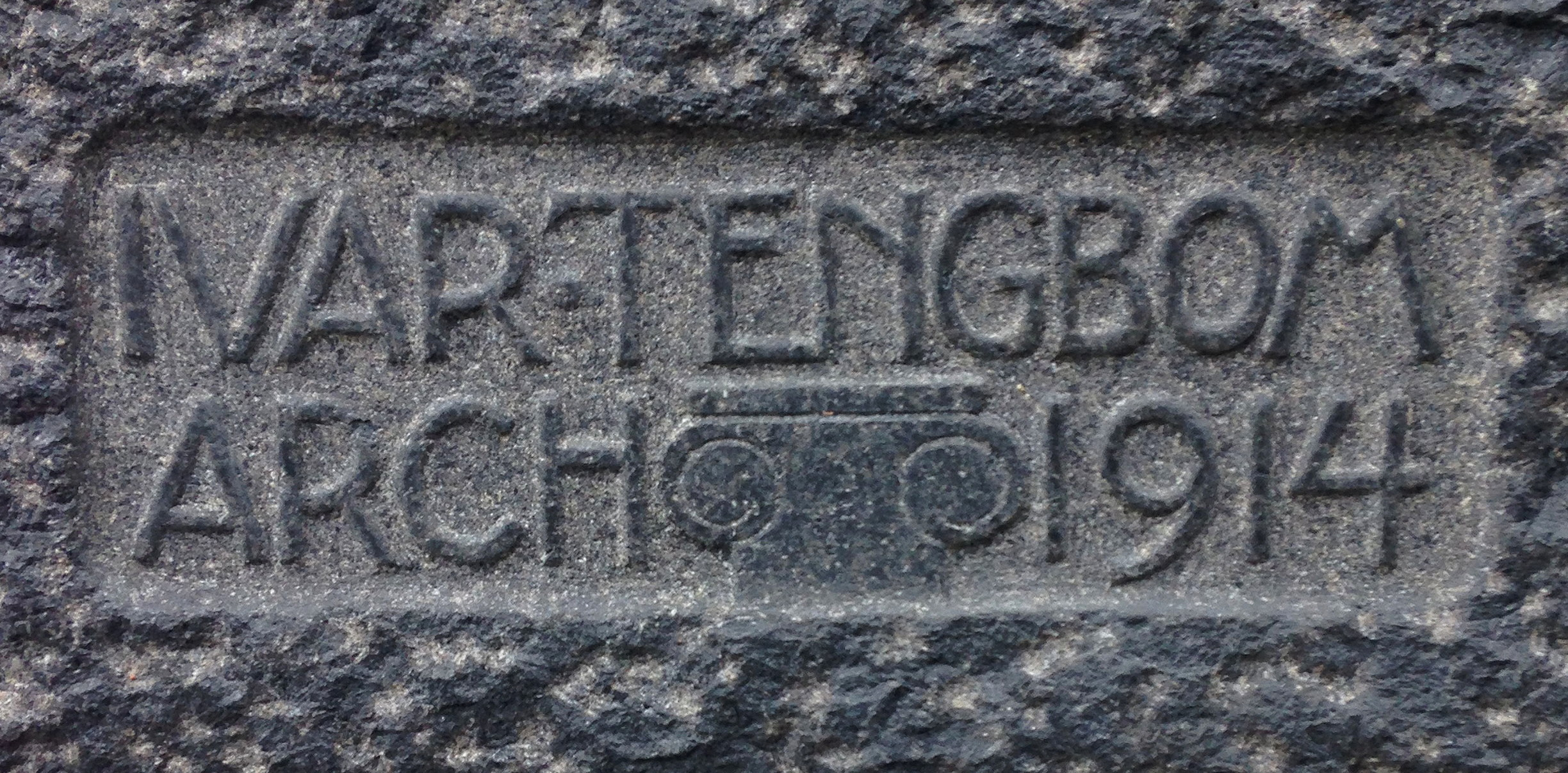 Architect Ivar Tengbom signature at Kungsträdgårdsgatan 10 in Stockholm (cropped version)